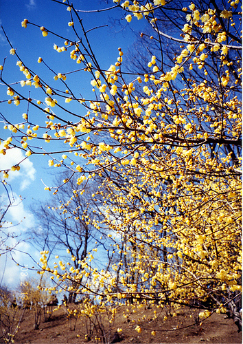 Japanese allspice (Chimonanthus praecox). Photo taken at Mount Hodo, Nagatoro, Saitama, Japan.